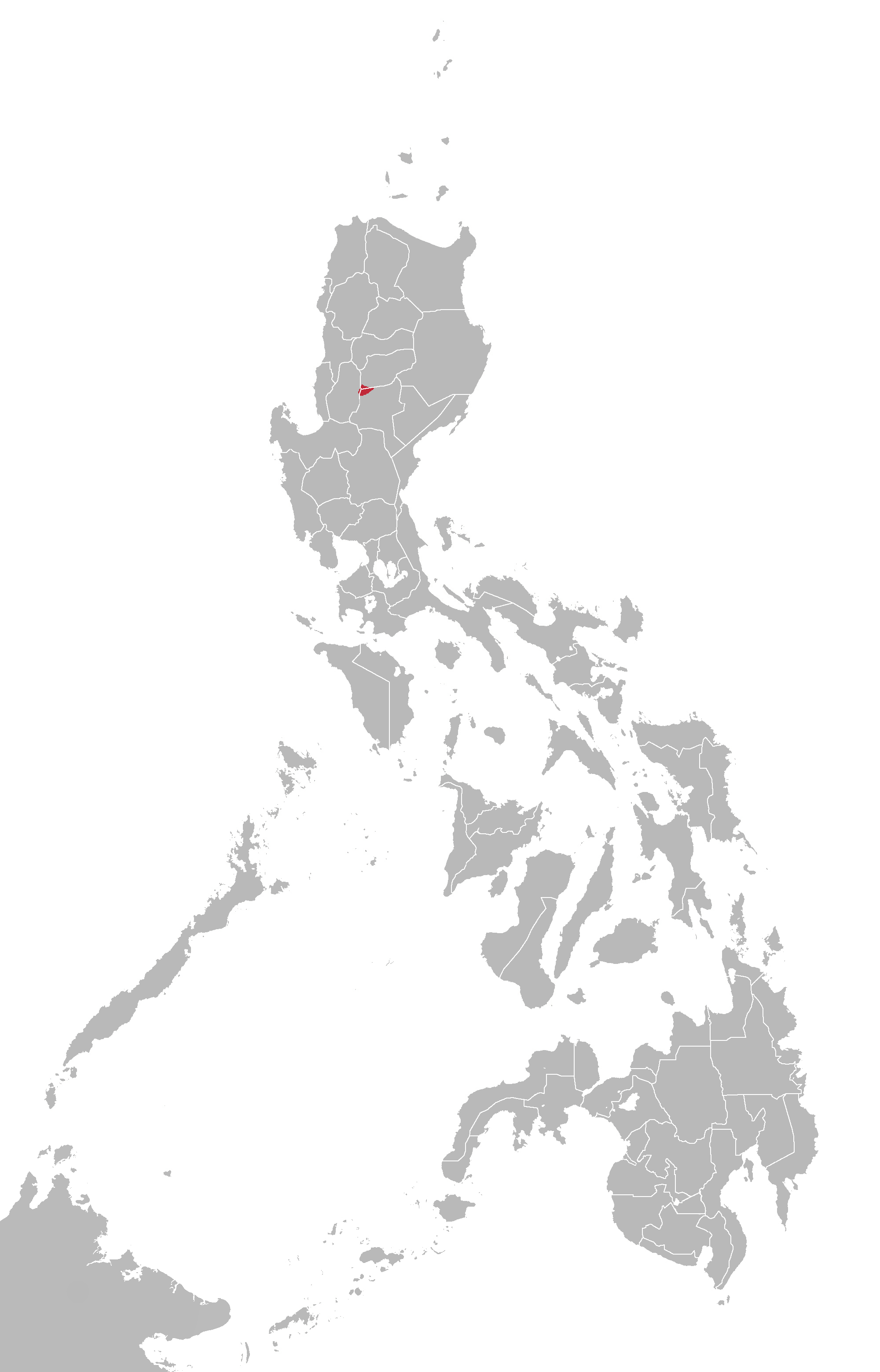 Karao language map based on Ethnologue maps